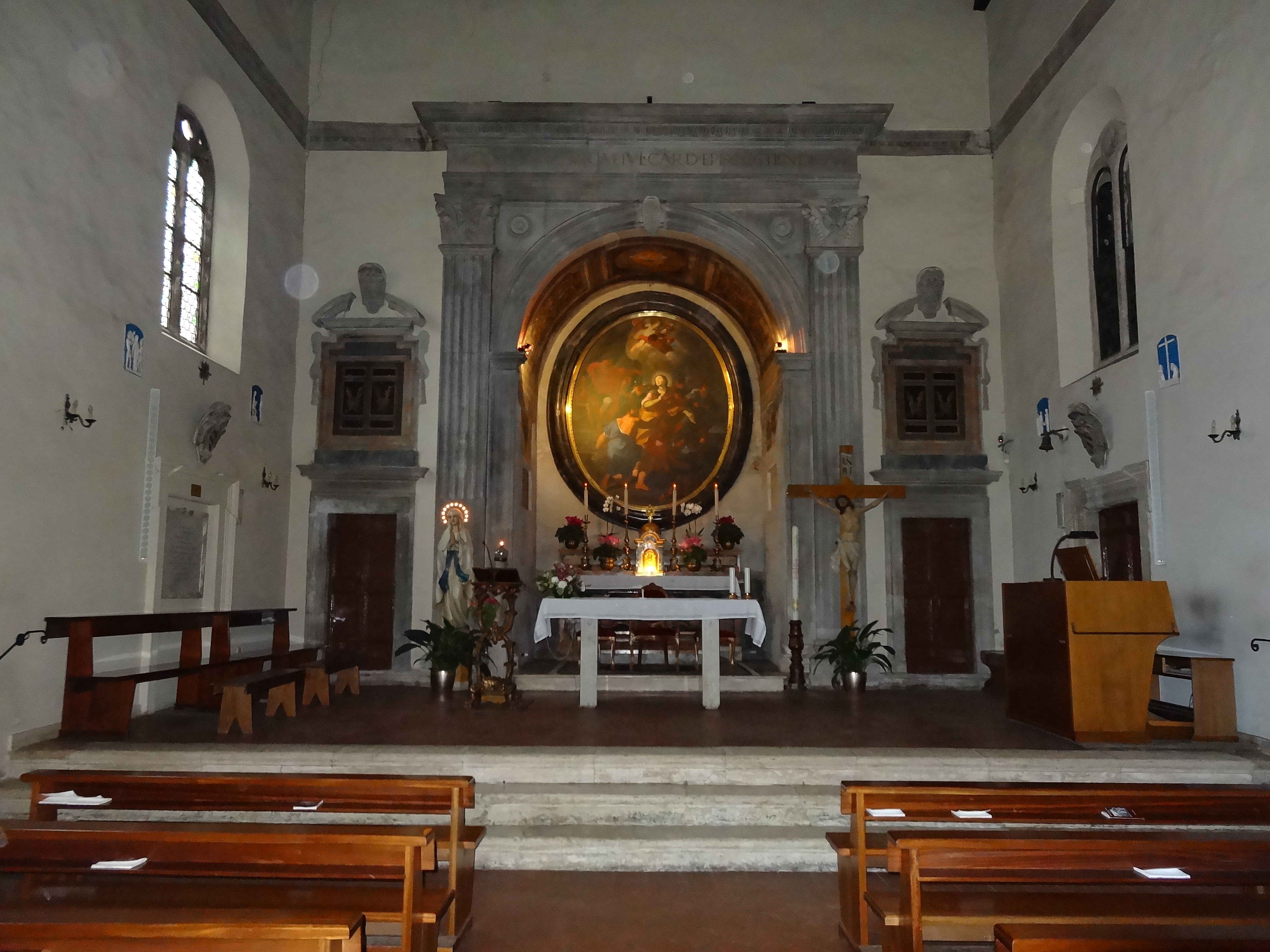 Basilica di Sant'Aurea